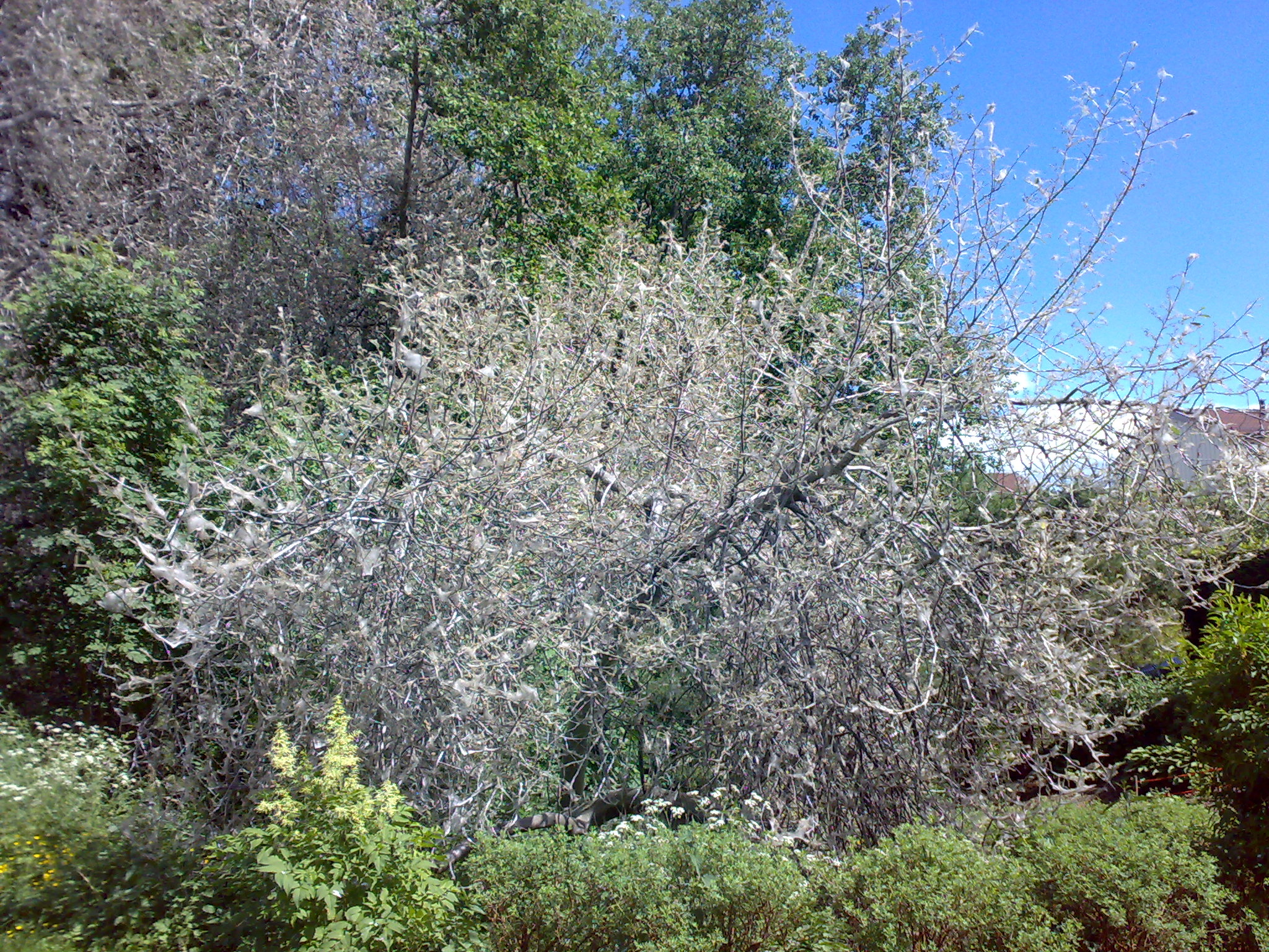 Heggemøll